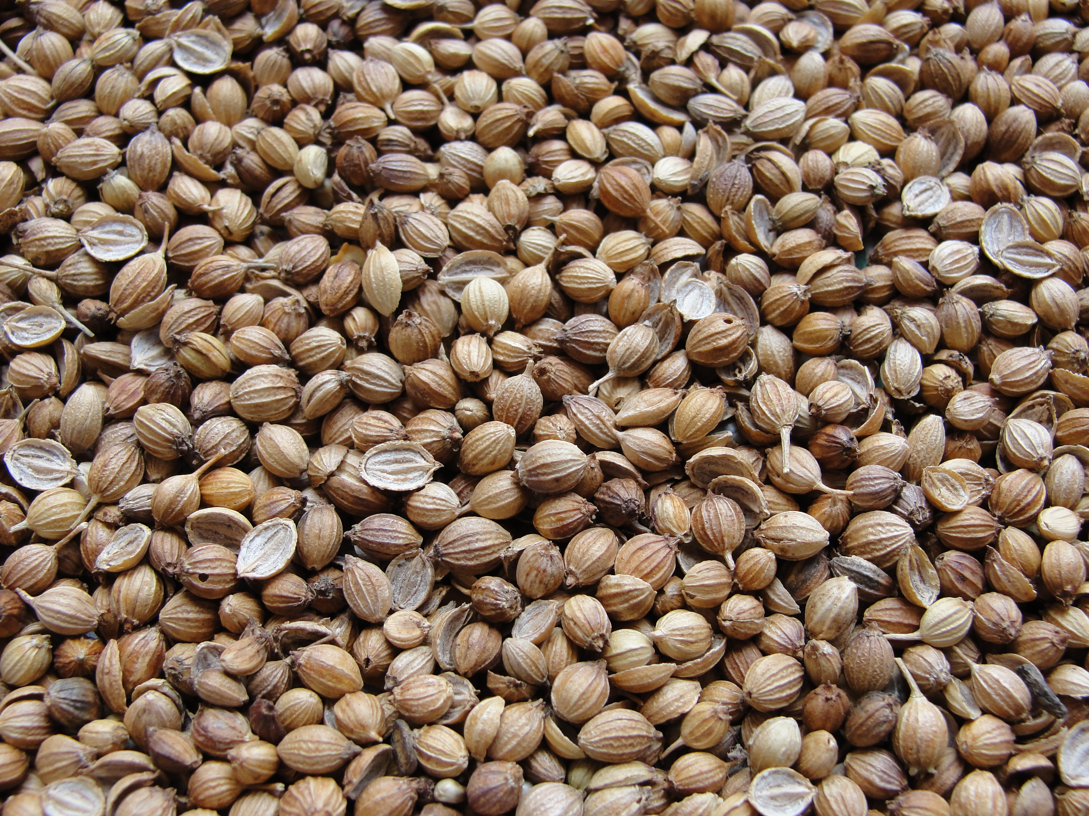 corianderUnknown கொத்துமல்லி